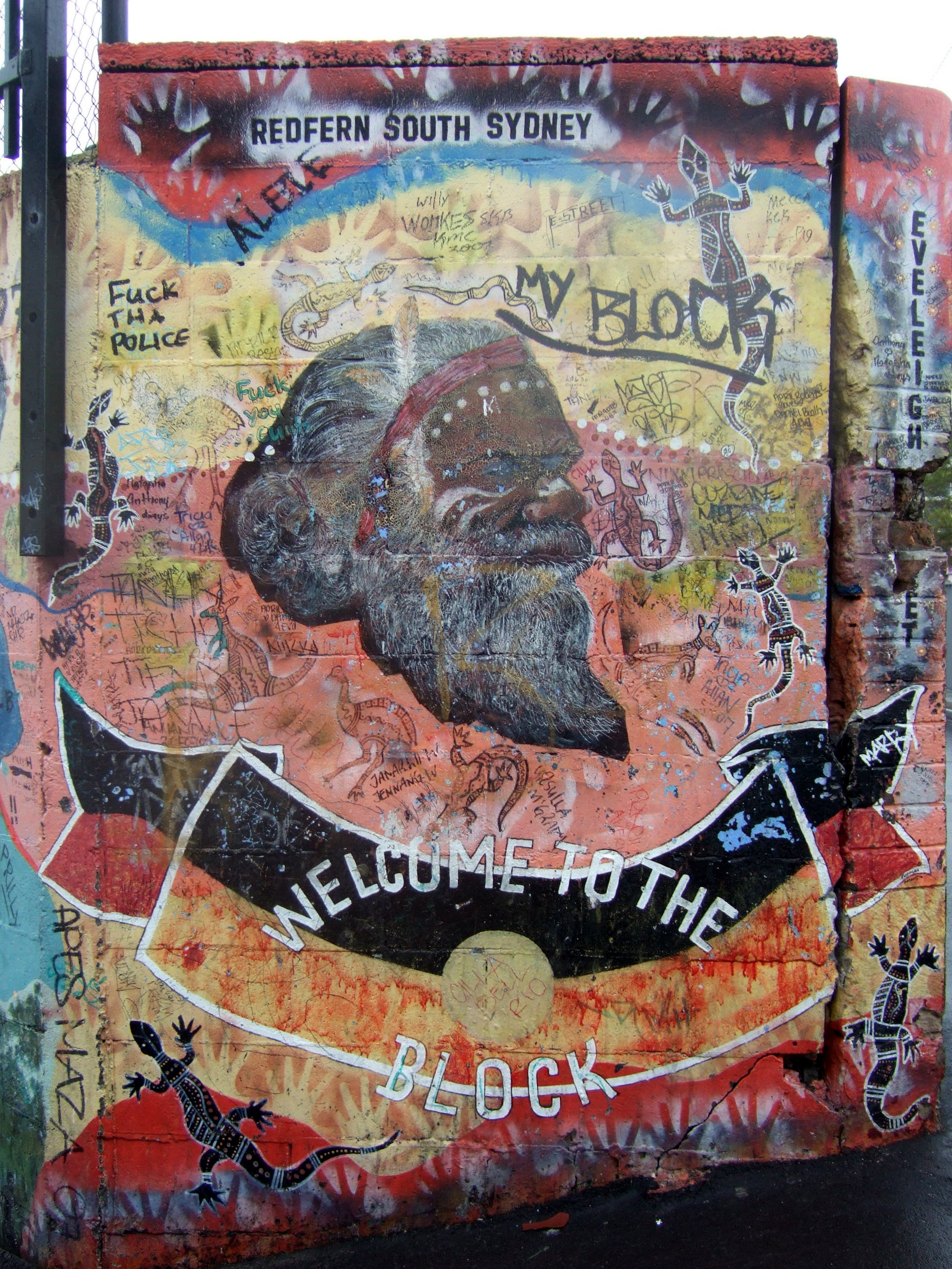 Mural at the entrance to The Block neighborhood of Redfern, New South Wales